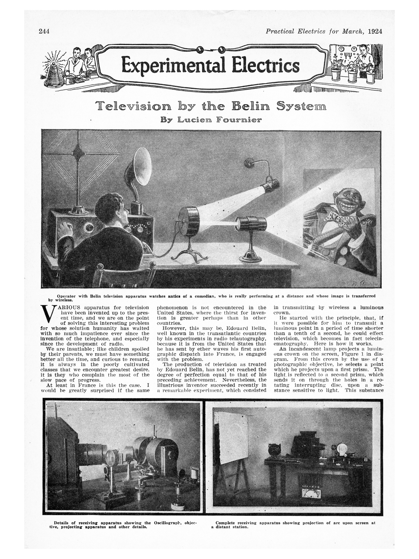 Practical Electrics, March 1924. Volume 3 Number 5. Editor and publisher: Hugo Gernsback, Associate Editor: T, O'Conor Sloane. Published by Experimenter Publishing Company Inc. The page numbers were on an annual base, not per issue. This issue had pages 225 to 288. Page 244 is shown. The magazine is 9 by 12 inches (23 by 30 cm). Television by the Belin System. Image:Practical Electrics Mar 1924 pg244.png Image:Practical Electrics Mar 1924 pg245.png Image:Practical Electrics Mar 1924 pg246.png